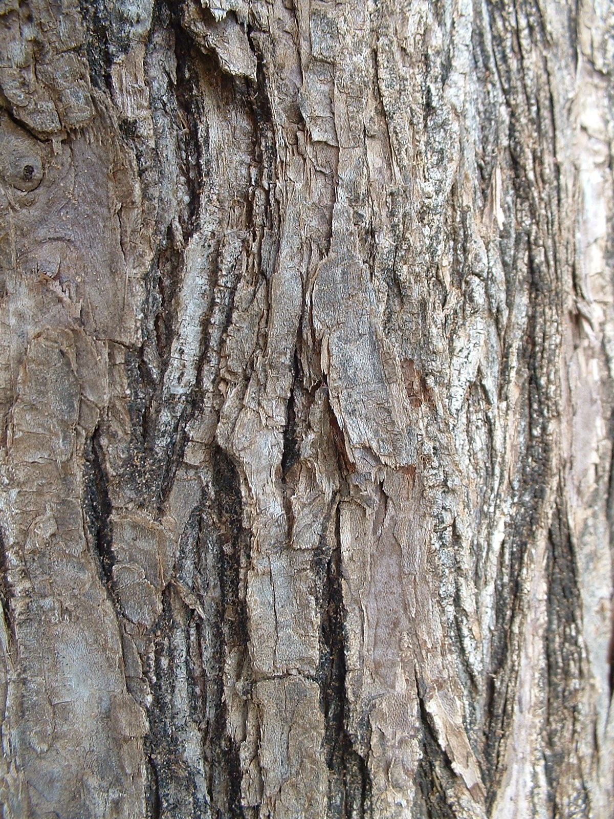 Bark on trunk of Melia azedarach (chinaberry). Photographed by myself, in Karkur, Israel; Dec. 30, 2005; Fuji FinePix 2650 camera.